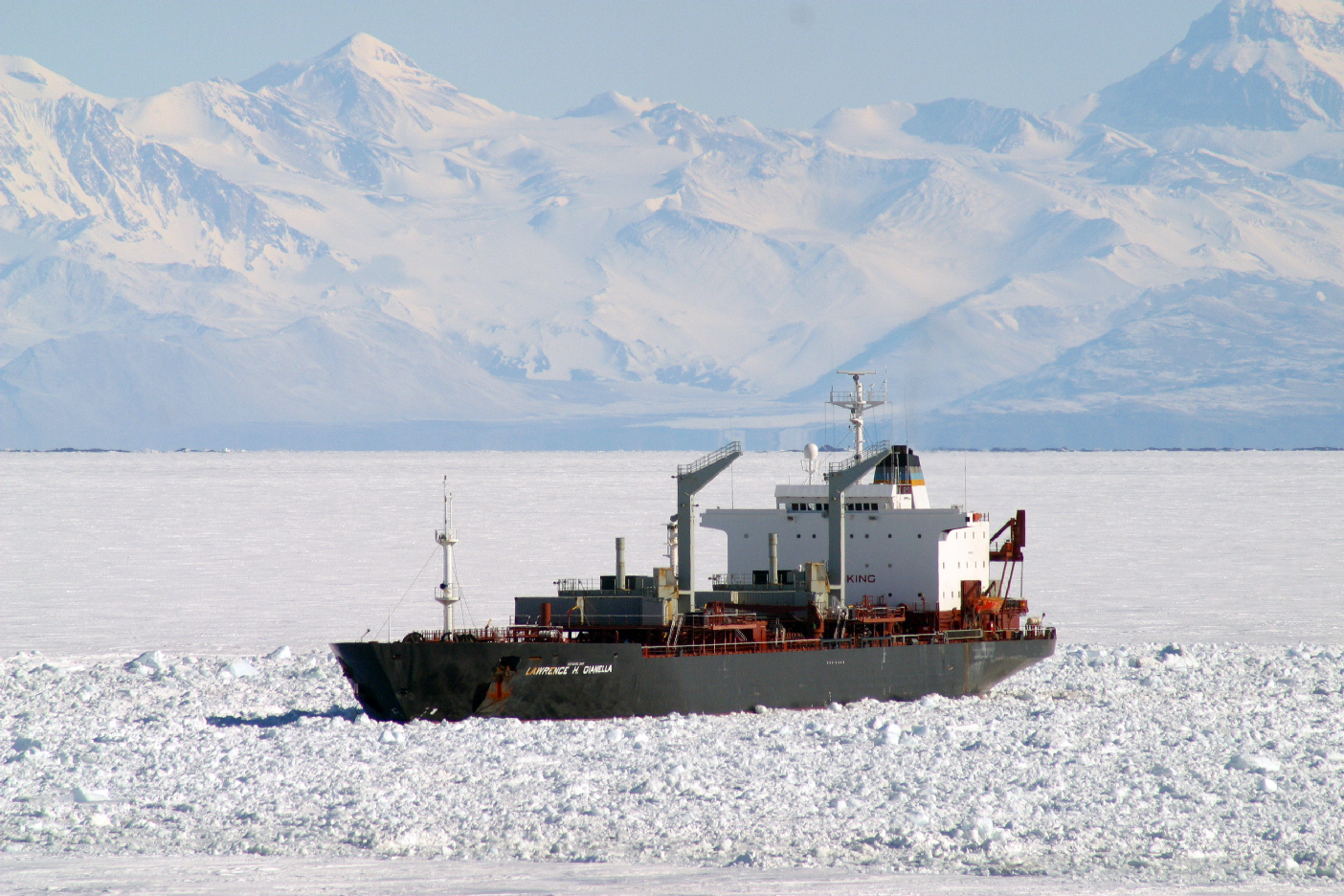 The fuel tanker Lawrence H. Gianella at Winters Quarters Bay at McMurdo Station, Antarctica; is one of several cargo ships used to re-supply the U.S. base and New Zealand's nearby Scott Base.